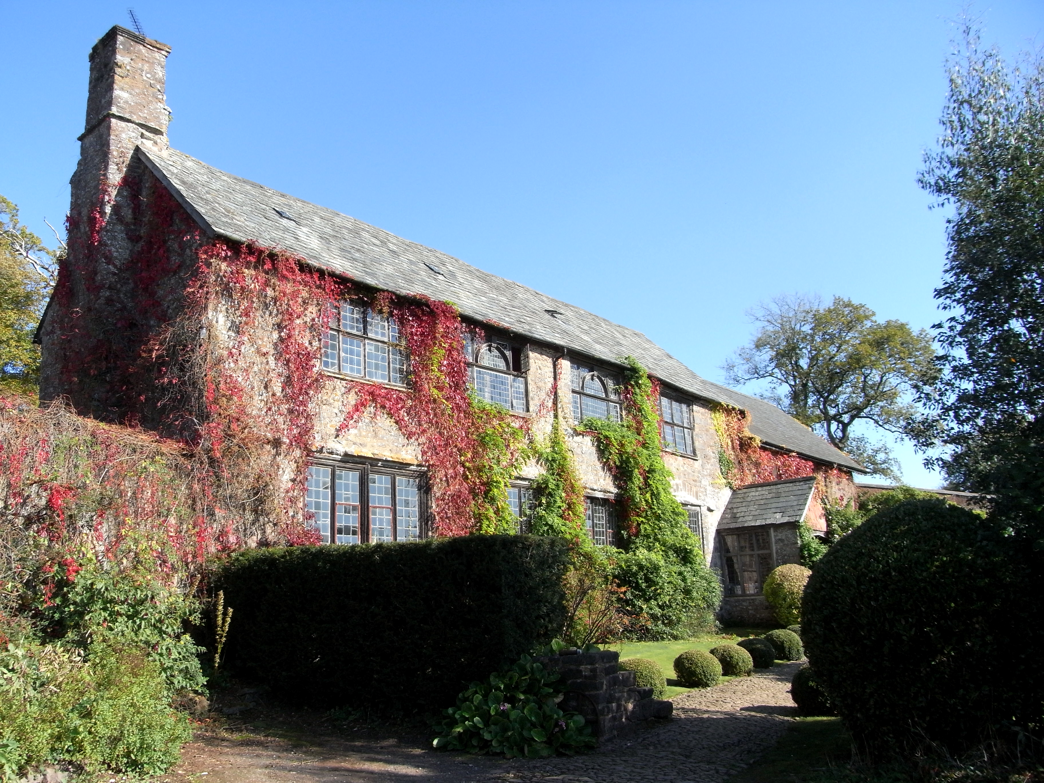 Upcott Barton in the parish of Cheriton FitzPaine, Devon, viewed from south-west